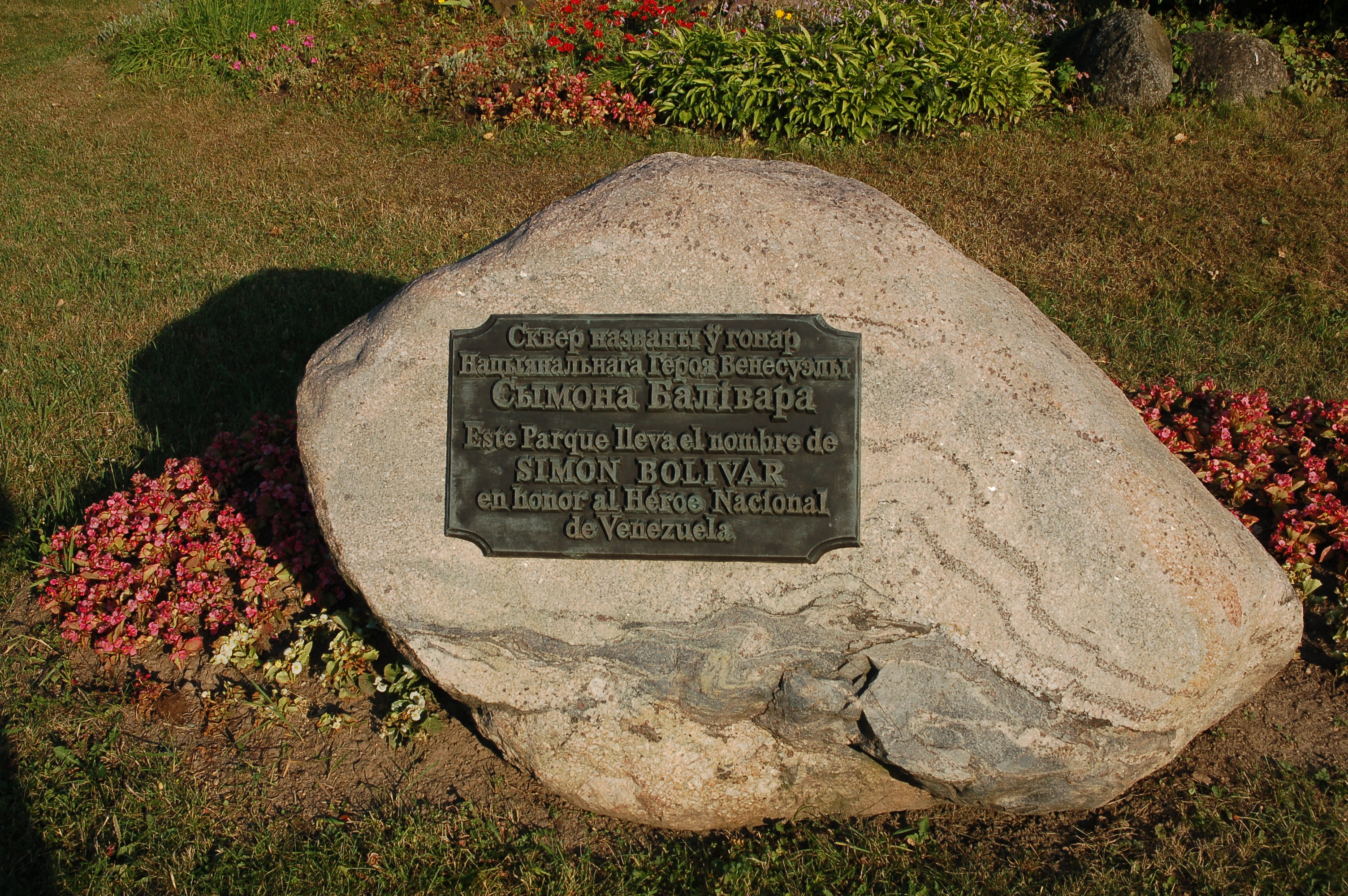 Minsk, Bolivar Park, memorial plaque